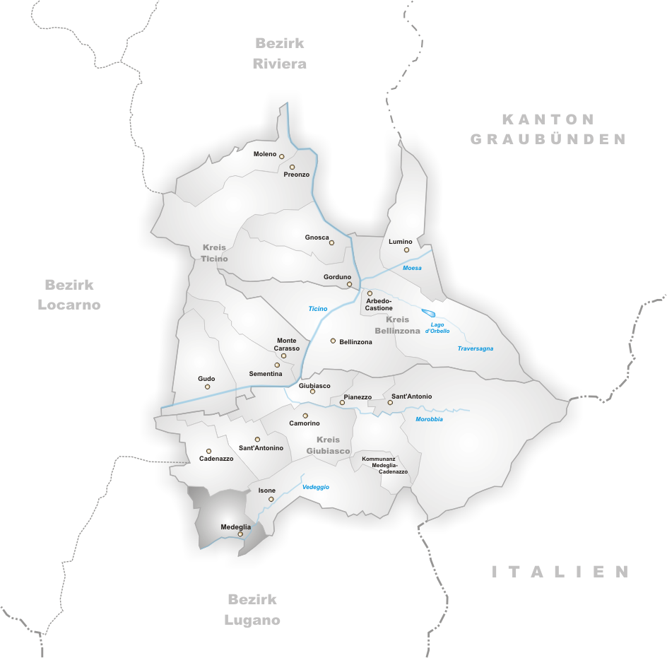 Municipality Medeglia